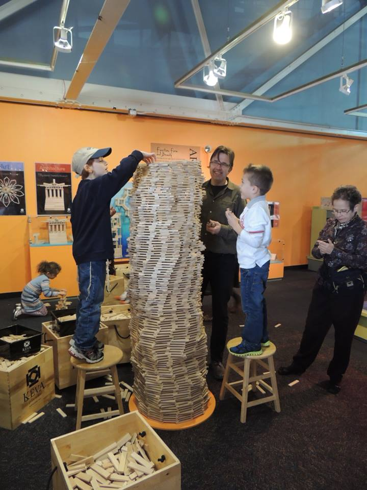 Visitors building in the exhibit titled "Building Boom with KEVA Planks" in the Long Island Children's Museum.